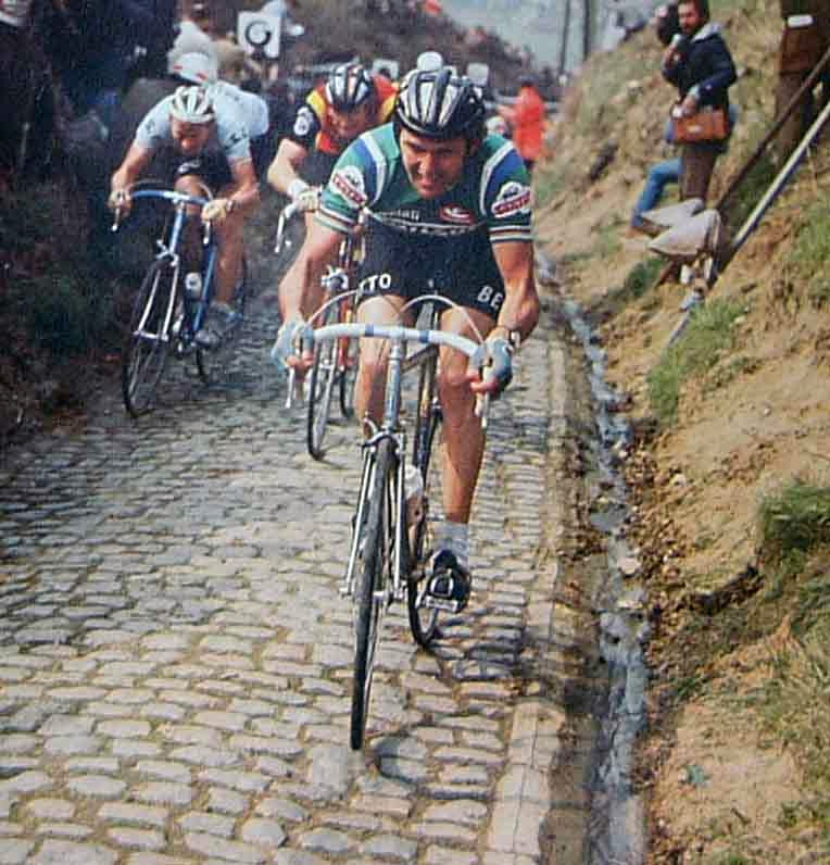 Roger de Vlaeminck at Tour of Flanders (Koppenberg), picture taken by Mick Knapton. Color correction by Tvpm